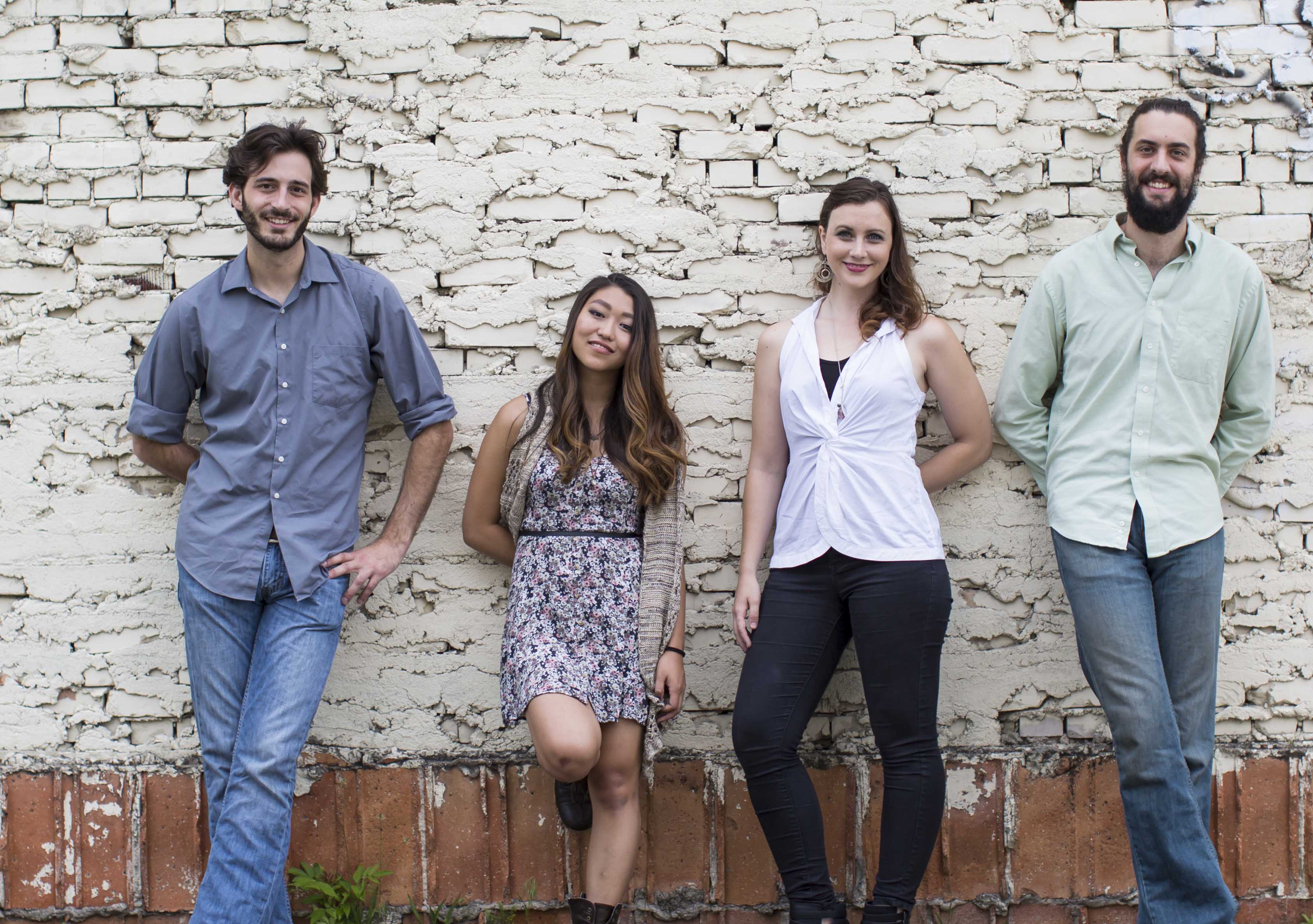 A shot of the band from summer 2015. Pictured from left to right Ben, Emilee, Kate, and Dan. Photo by Leah Renee Photography